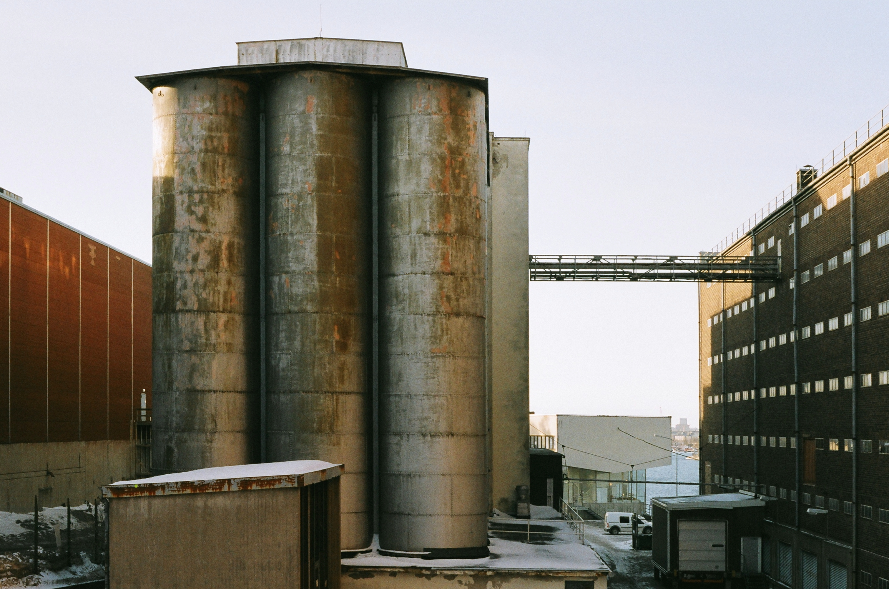 Havrekvarnen, Kvarnholmen 2011.